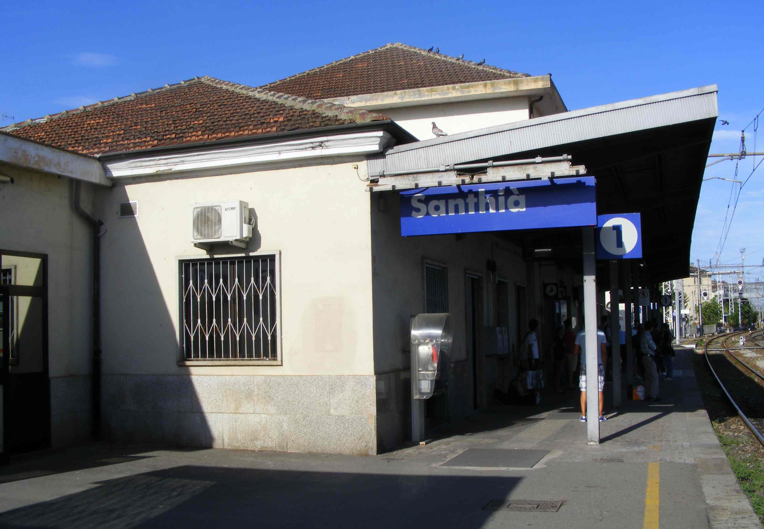 Santhià railway station (VC, Italy)